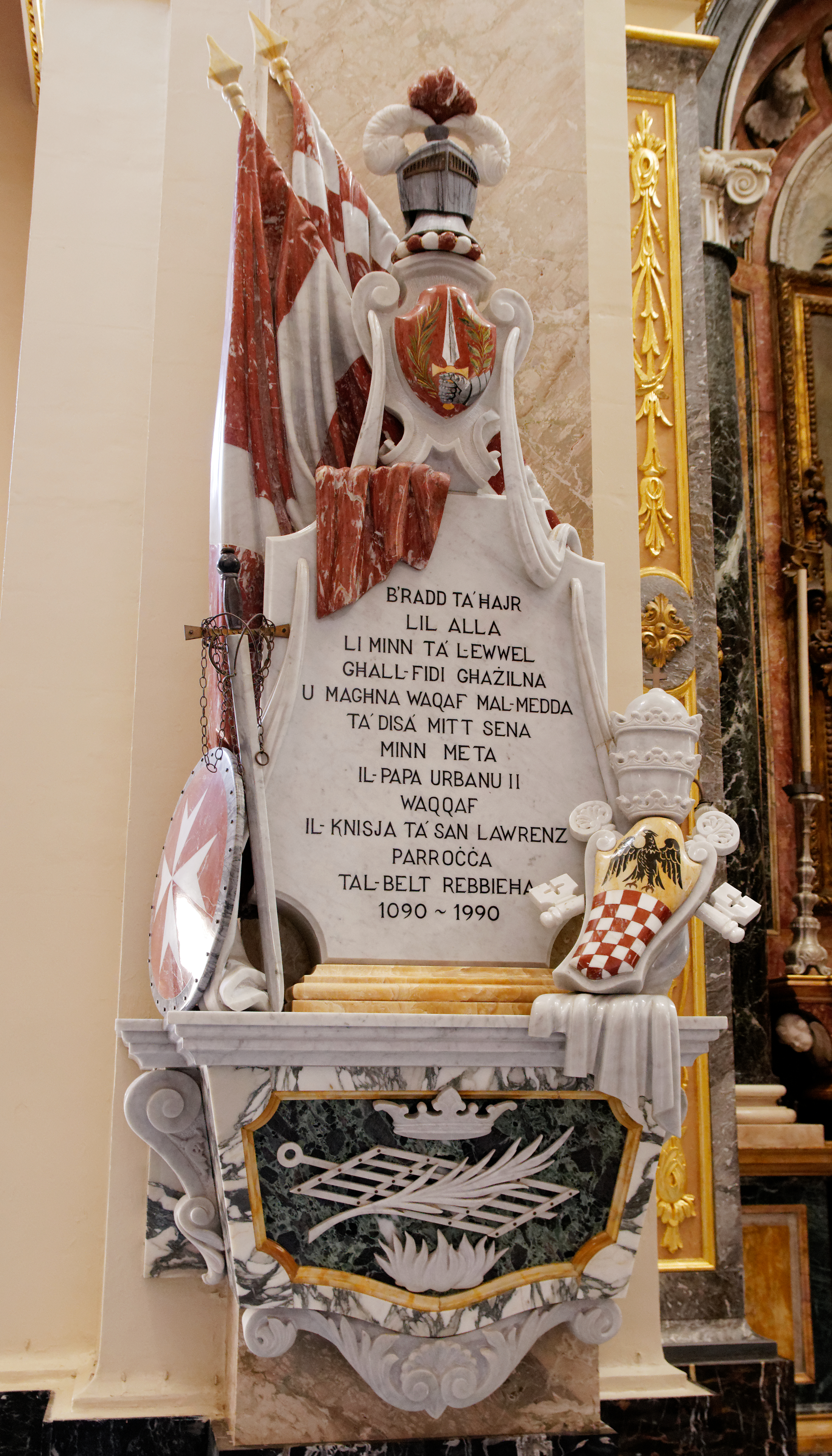 Monument in St Lawrence's Church, Vittoriosa, Malta.